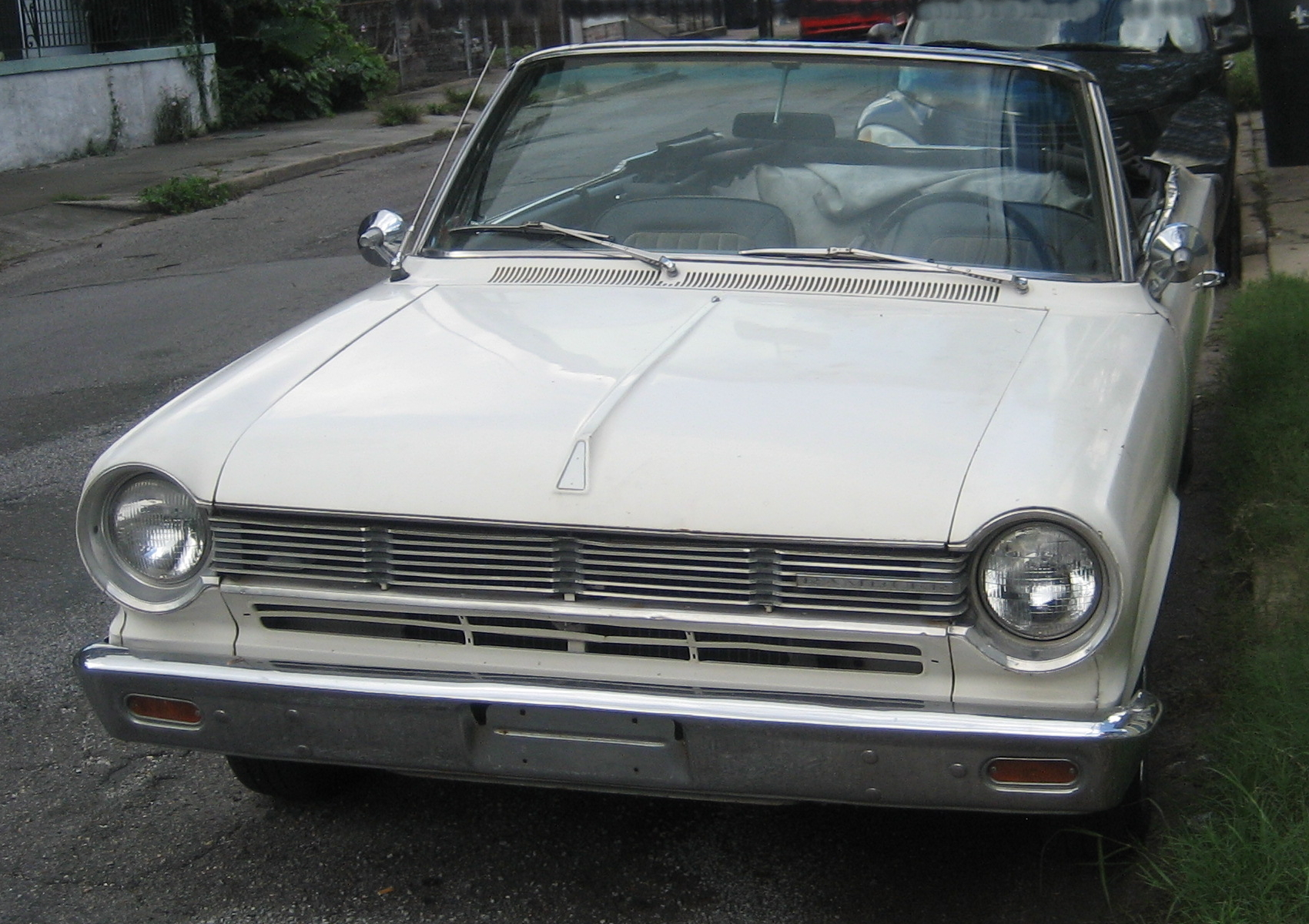 1960s Rambler American convertible seen on street in Bywater section of New Orleans.